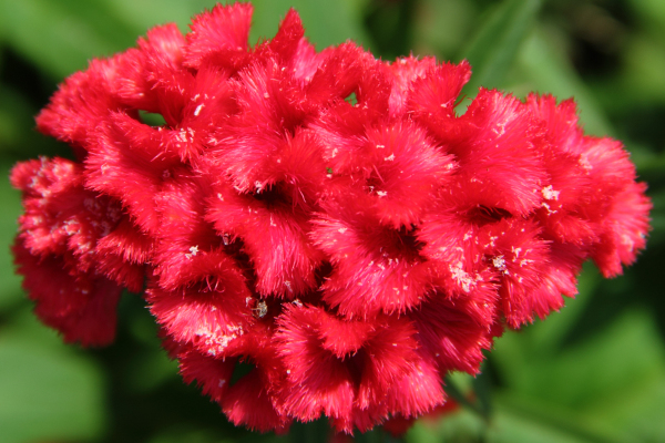 cockscomb, Chi Kuan